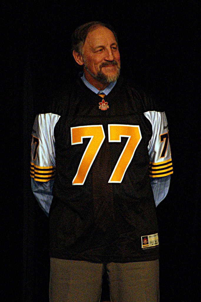 Tony Gabriel at Canada's Sports Hall of Fame Induction Dinner, November 10, 2010 at Calgary, Alberta. Tony Gabriel (born December 11, 1948 in Burlington, Ontario) is a former professional Canadian football pass receiver who played in the Canadian Football League from 1971 to 1981. He played for both the Hamilton Tiger-Cats and the Ottawa Rough Riders. He was inducted into the Canadian Football Hall of Fame in August 1984.